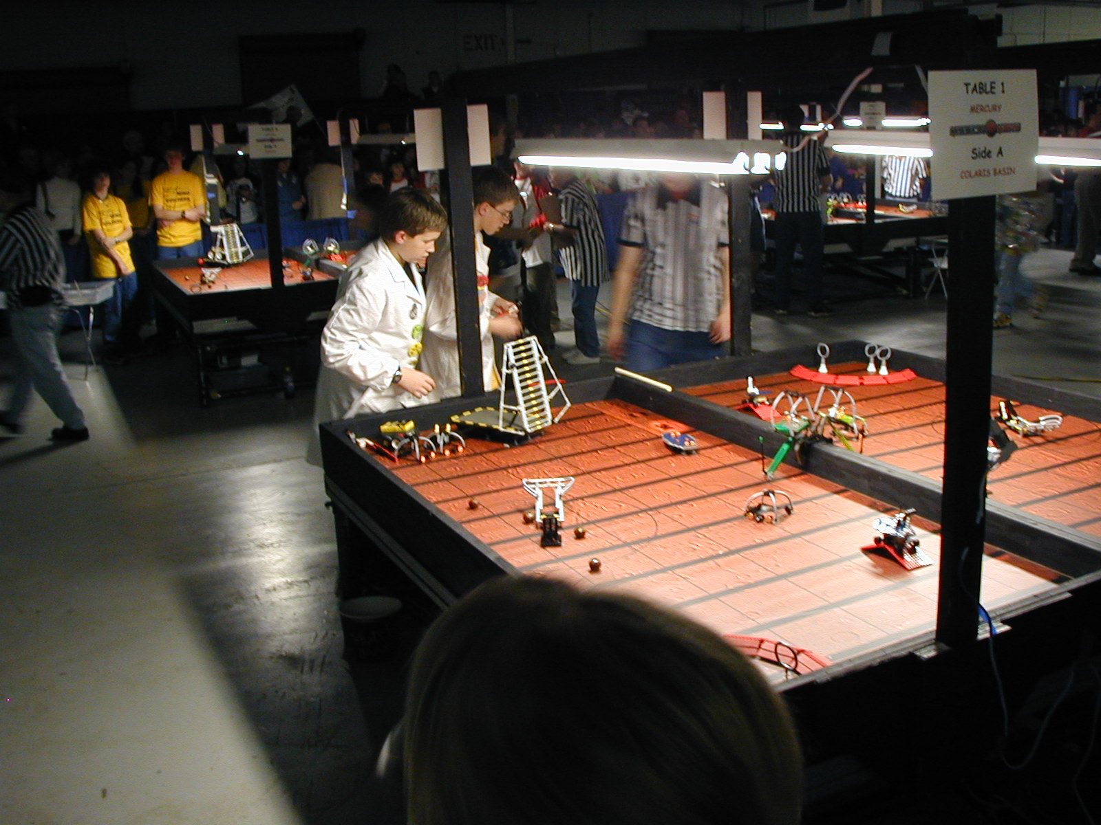 The Mission Mars field for FIRST Lego League